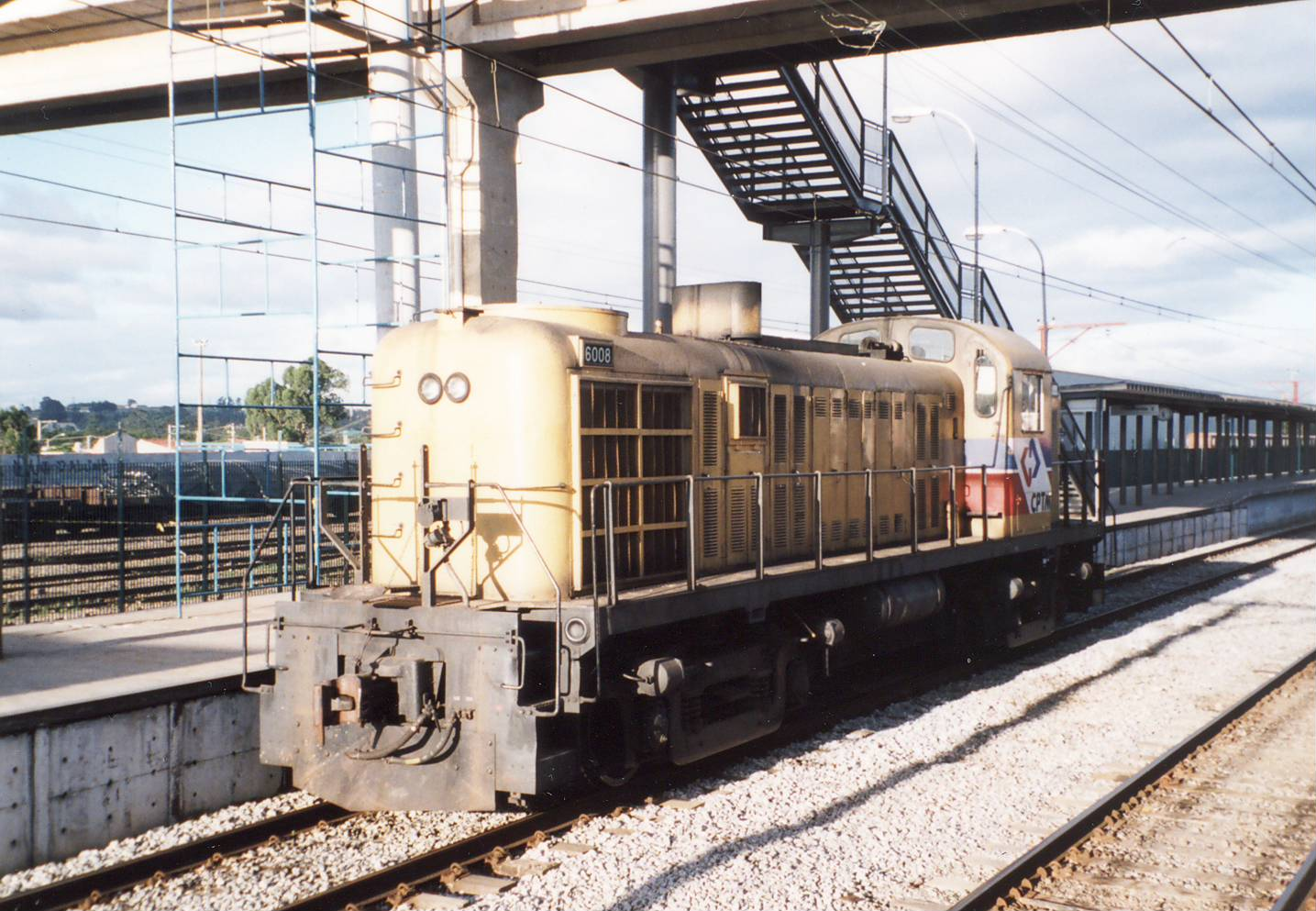 CPTM (Brazil) #6008 diesel locomotive built by ALCO.